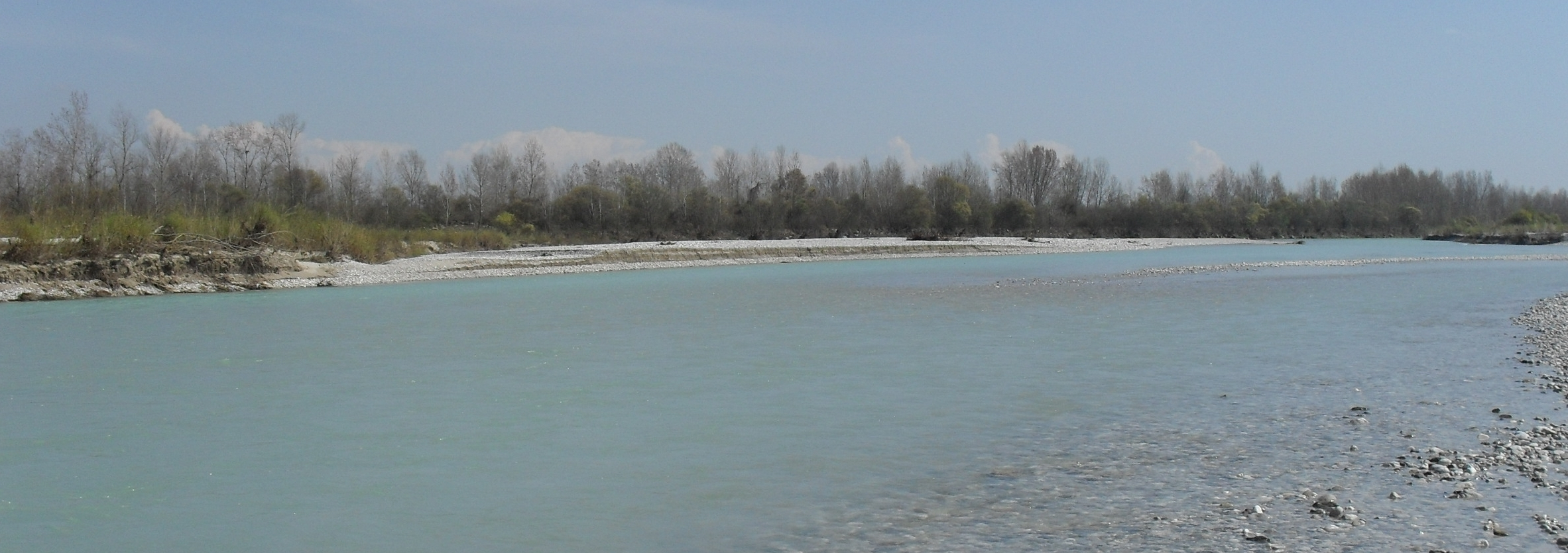 River Tagliamento (Italy) at Rosa (San Vito al Tagliamento), looking to south east (from right to left bank of the river)